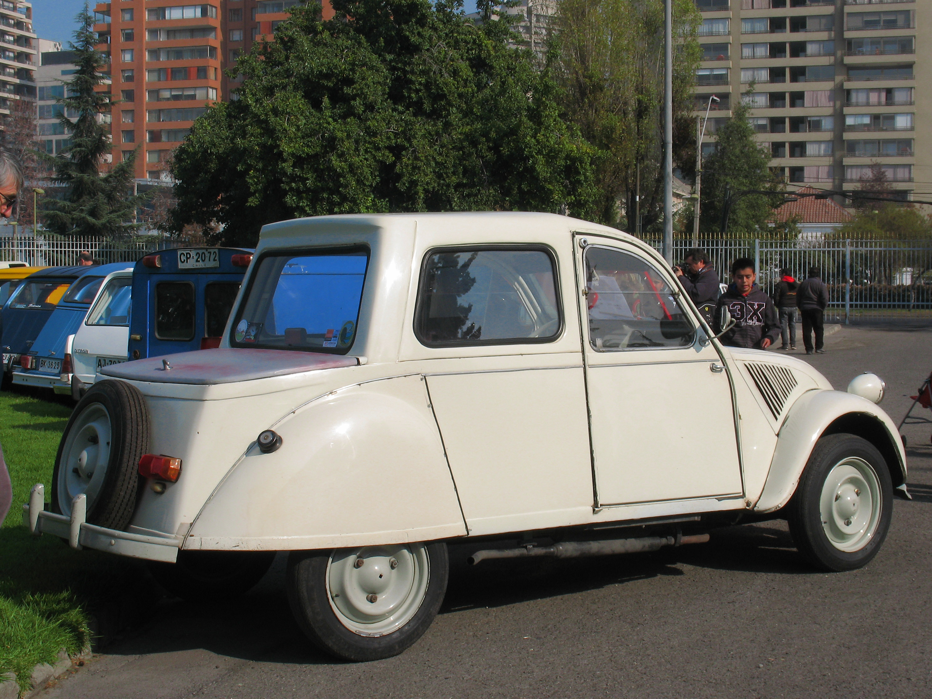 This is sort of a coupe version